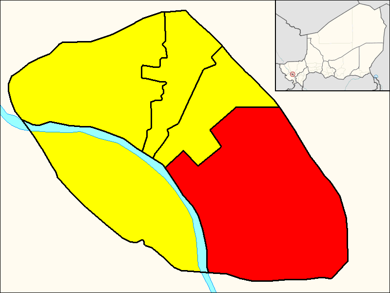 Map of the borough (commune) of Niamey IV (shown in red) within the city of Niamey (yellow). Niger River is shown in the map.